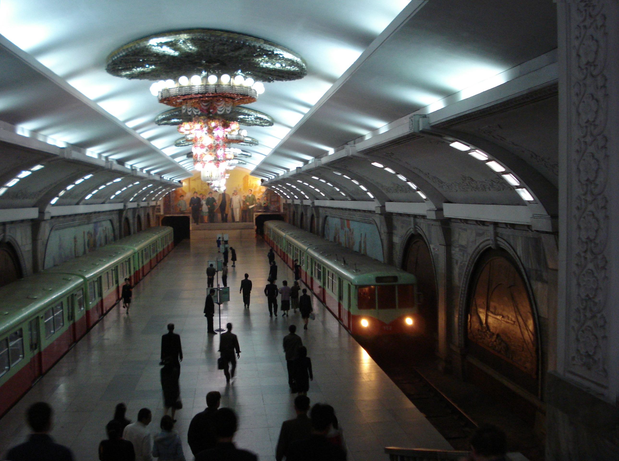 Pyongyang Metro, DPRK, Puhŭng (부흥) station